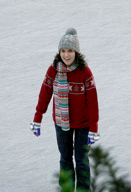 filming 30 Rock at the Rockefeller Plaza ice rink